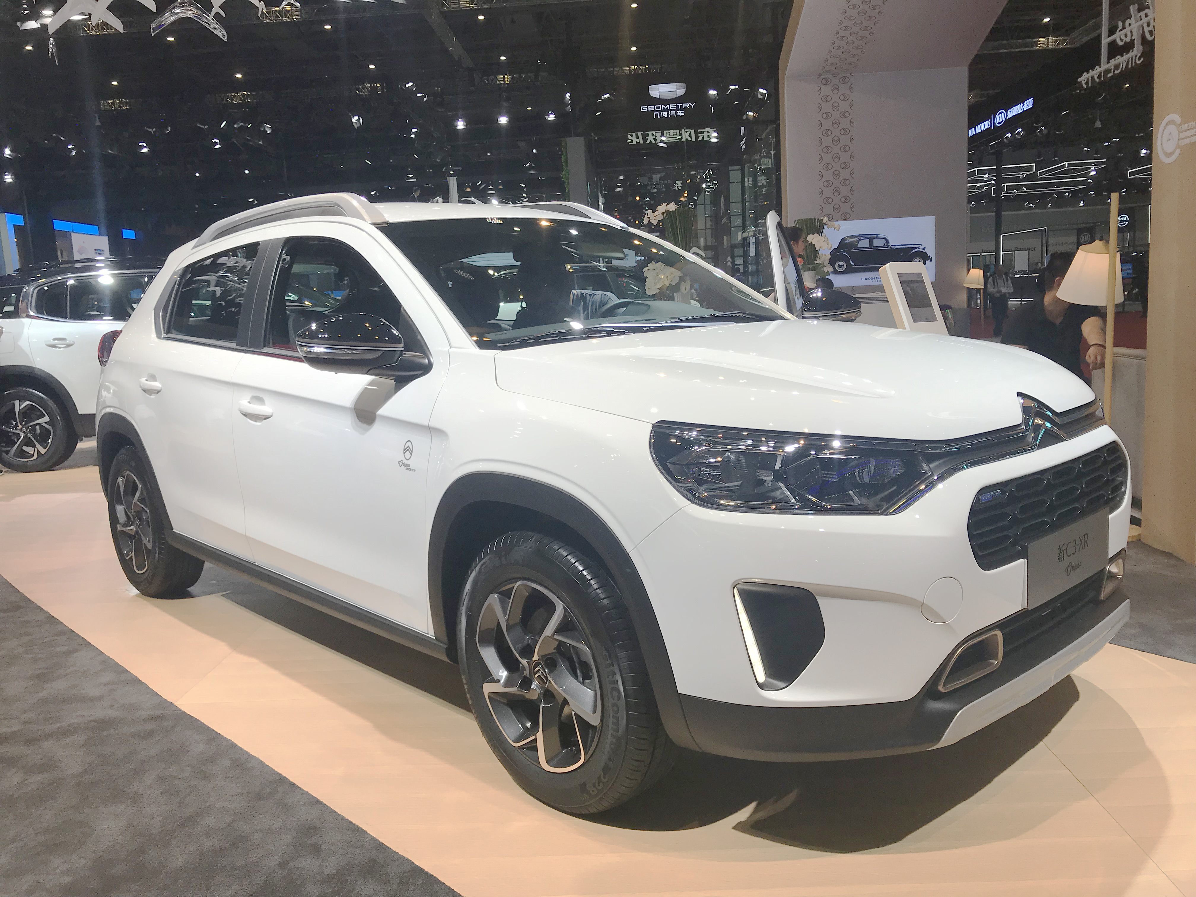 Citroen C3-XR facelift front